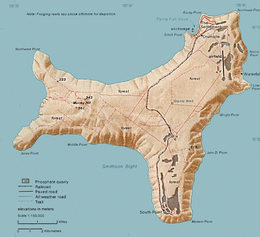 Map of Christmas. This map was produced by the U.S. Central Intelligence Agency, unless otherwise indicated. Maps dated 1976 were taken from The Indian Ocean Atlas, published by the Central Intelligence Agency.